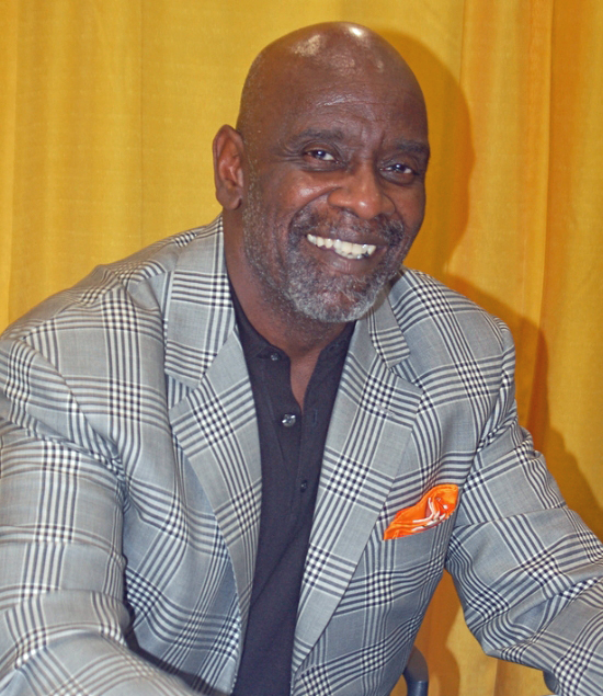 Chris Gardner attending the AARP's 2011 Life@50+ National Event and Expo in September 2011.